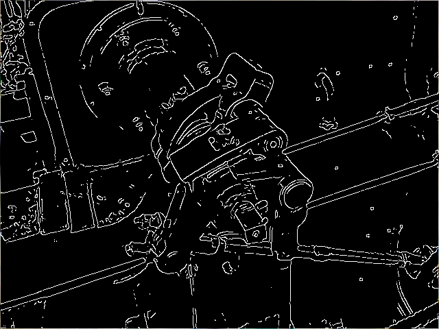 The original image was taken by me in Manchester in the Museum of Science and Industry in Manchester. This was obtained using a Java edge detection program I wrote. If you want the source code leave me a message.